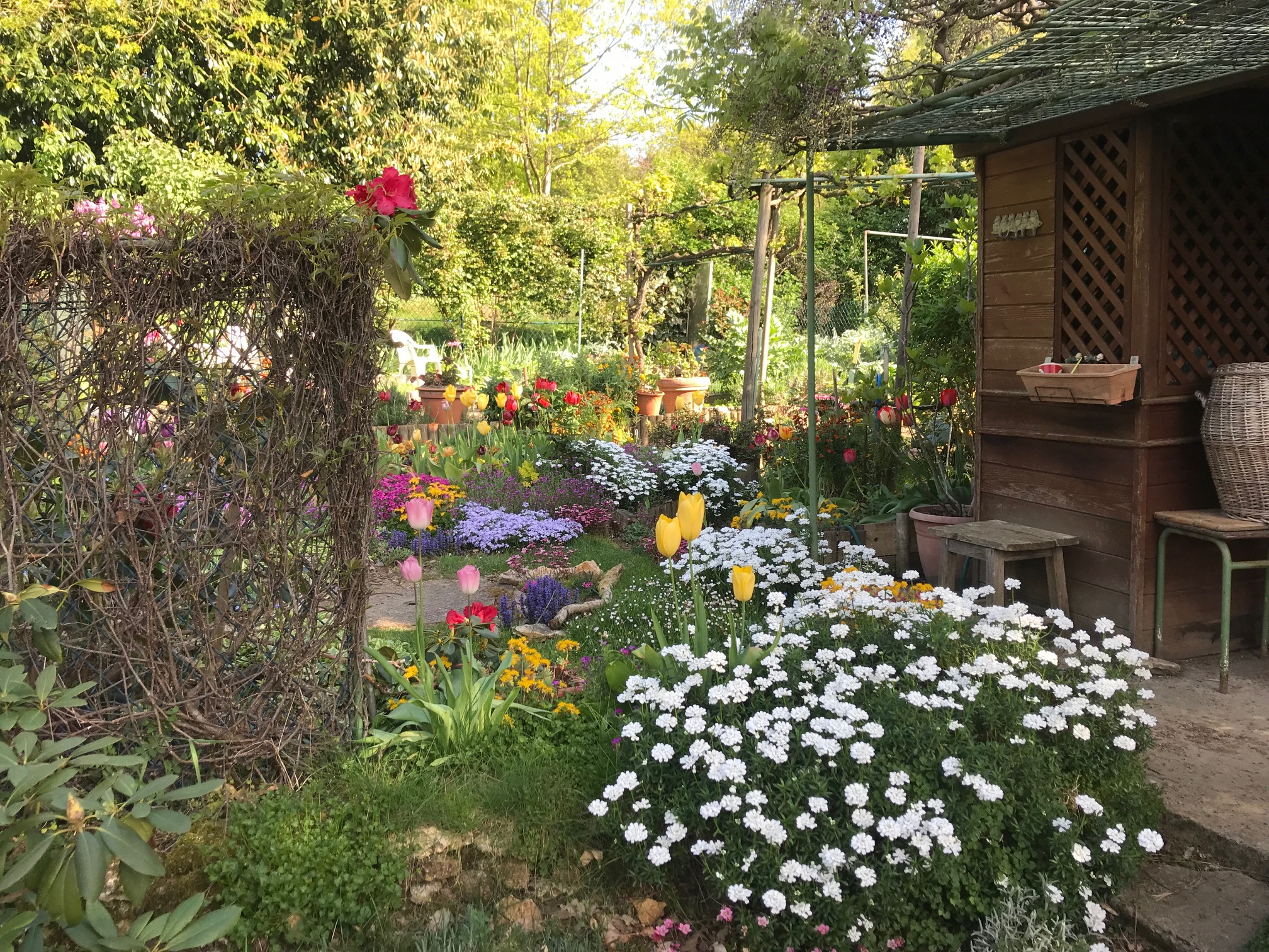 Jardin ouvrier rue Benoît Malon dans la cité-jardin de la Butte rouge à Châtenay-malabry. Ici l'habitant qui s'occupe du jardin a choisi d'en faire un jardin d'agrément fleuri